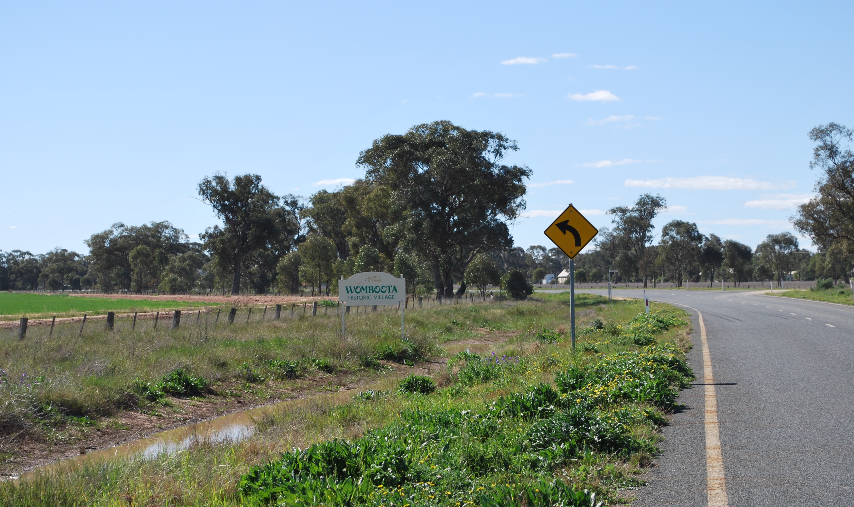 Town entry sign on the Perricoota Road at Womboota, New South Wales